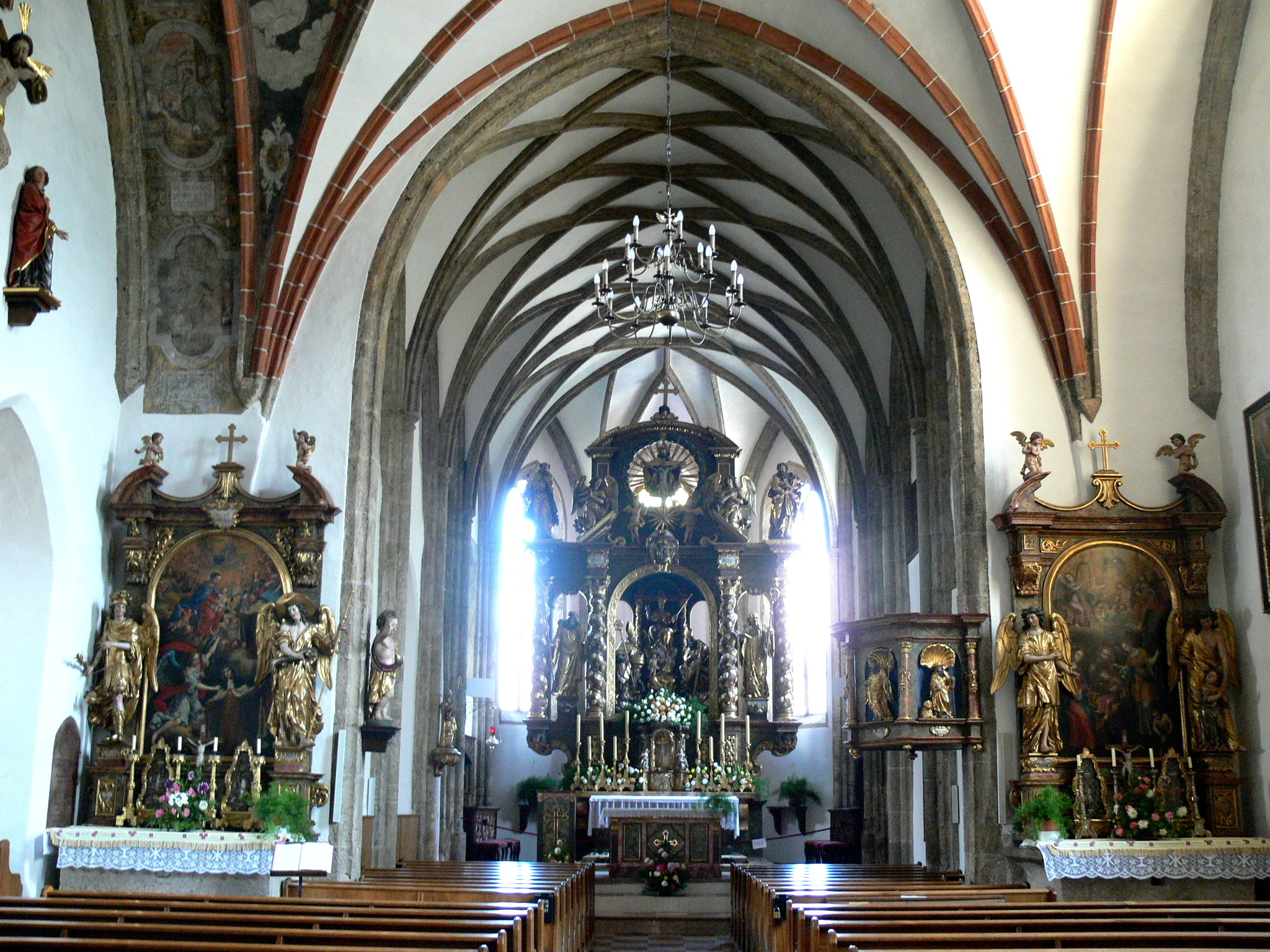 Saint Blaise parish church in Abtenau ( Salzburg ). Interior.